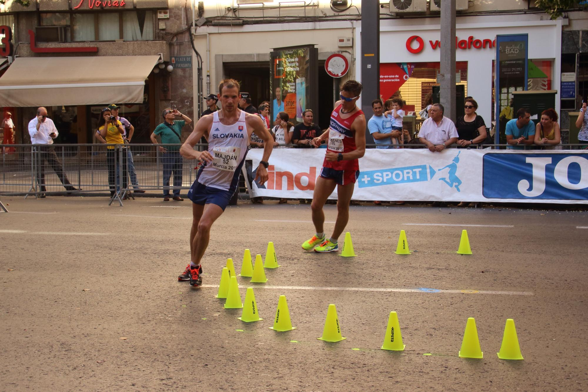 52-Dušan Majdán (SVK) y 35-Håvard Haukenes (NOR) in the 11th European Cup Race Walking Murcia ESP 17 May 2015